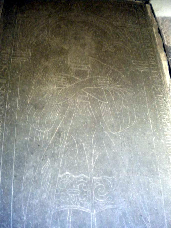 False gravestone of King Ingi the Elder (16th century fantasy financed by King John III)Place: Varnhem Church, Axvall, Sweden